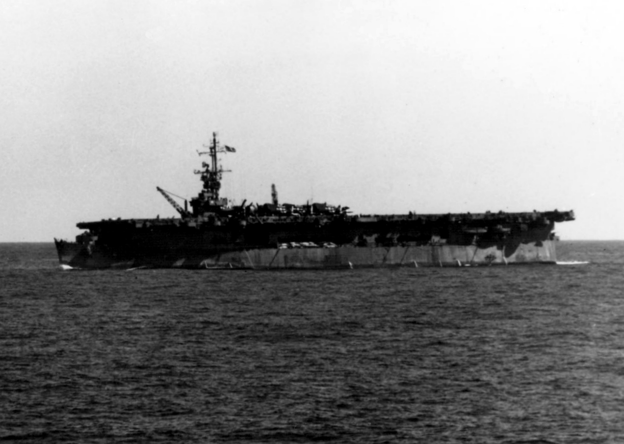 The U.S. Navy light aircraft carrier USS Belleau Wood (CVL-24) underway off Iwo Jima, in early 1945.